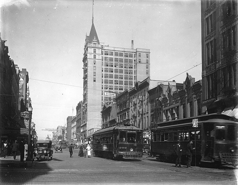 Street scene showing street cars. Tacoma Photo Studio to right . On sleeve of negative: Tacoma. North on Pacific Ave. from 12th St. Subjects (LCTGM): Streets--Washington (State)--Tacoma; Business enterprises--Washington (State)--Tacoma; Photographic studios--Washington (State)--Tacoma; Automobiles--Washington (State)--Tacoma; Street railroads--Washington (State)--Tacoma Subjects (LCSH): Pacific Avenue (Tacoma, Wash.); Tacoma Photo Studio (Tacoma, Wash.); Tacoma (Wash.)--Buildings, structures, etc.